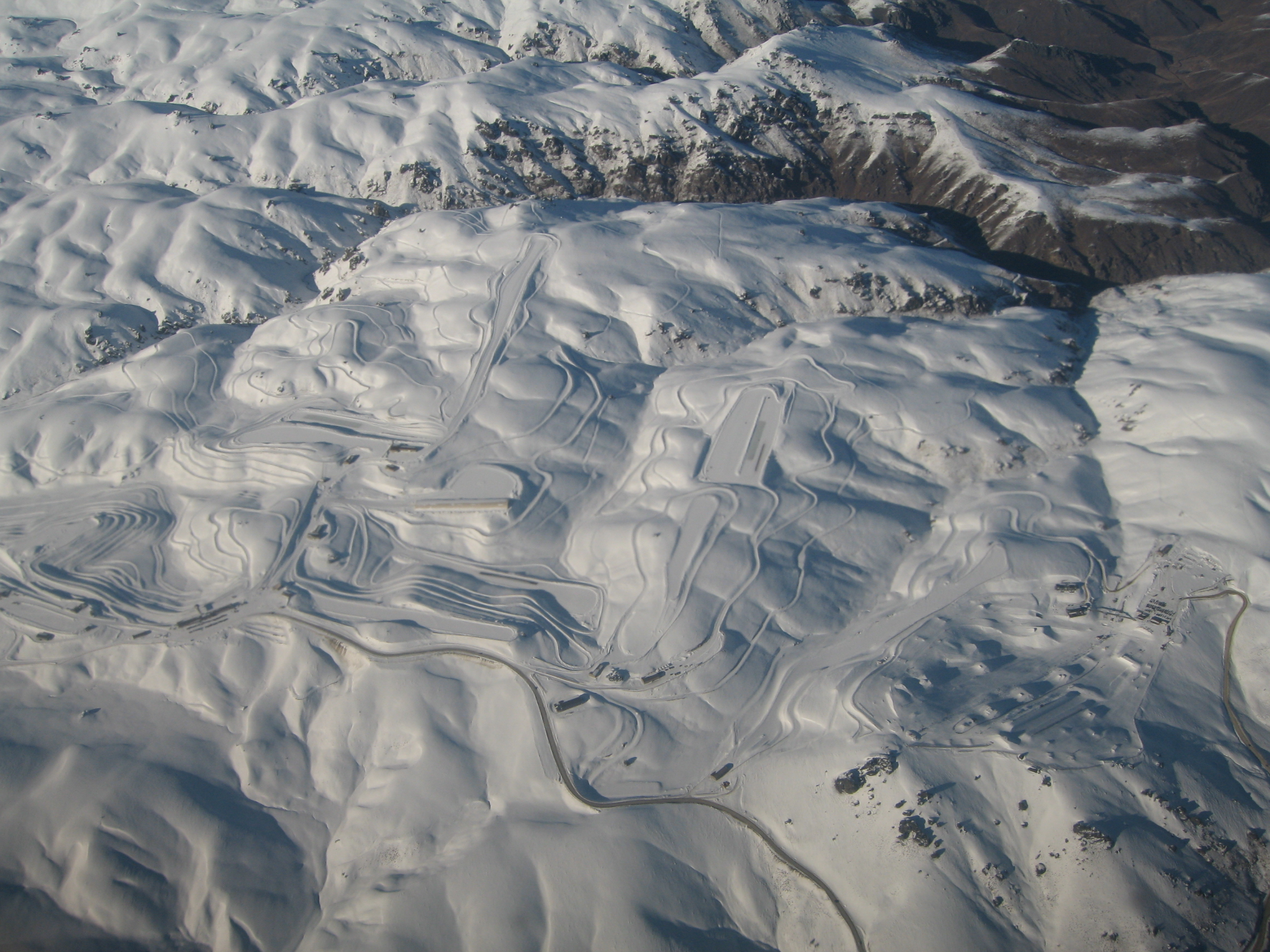 An aerial of Snowfarm and the Southern Proving Grounds in the Pisa Range near Wanaka, New Zealand.